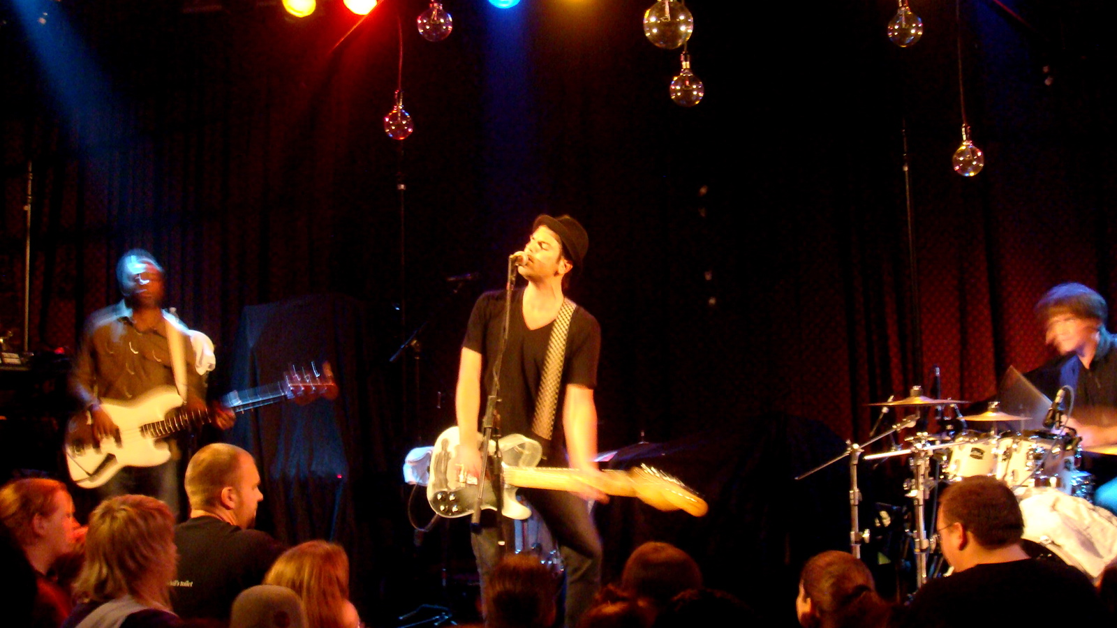 Bedouin Soundclash in concert - 3